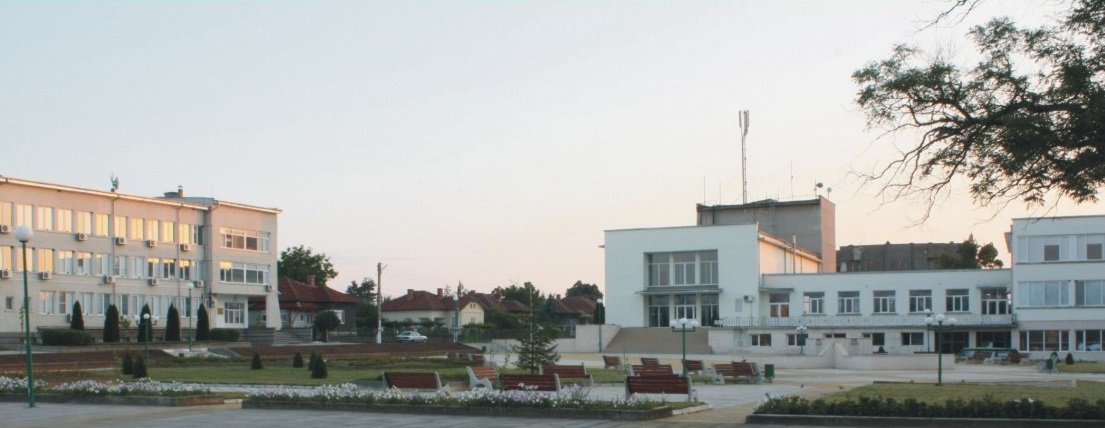 Центъра на град Брусарци